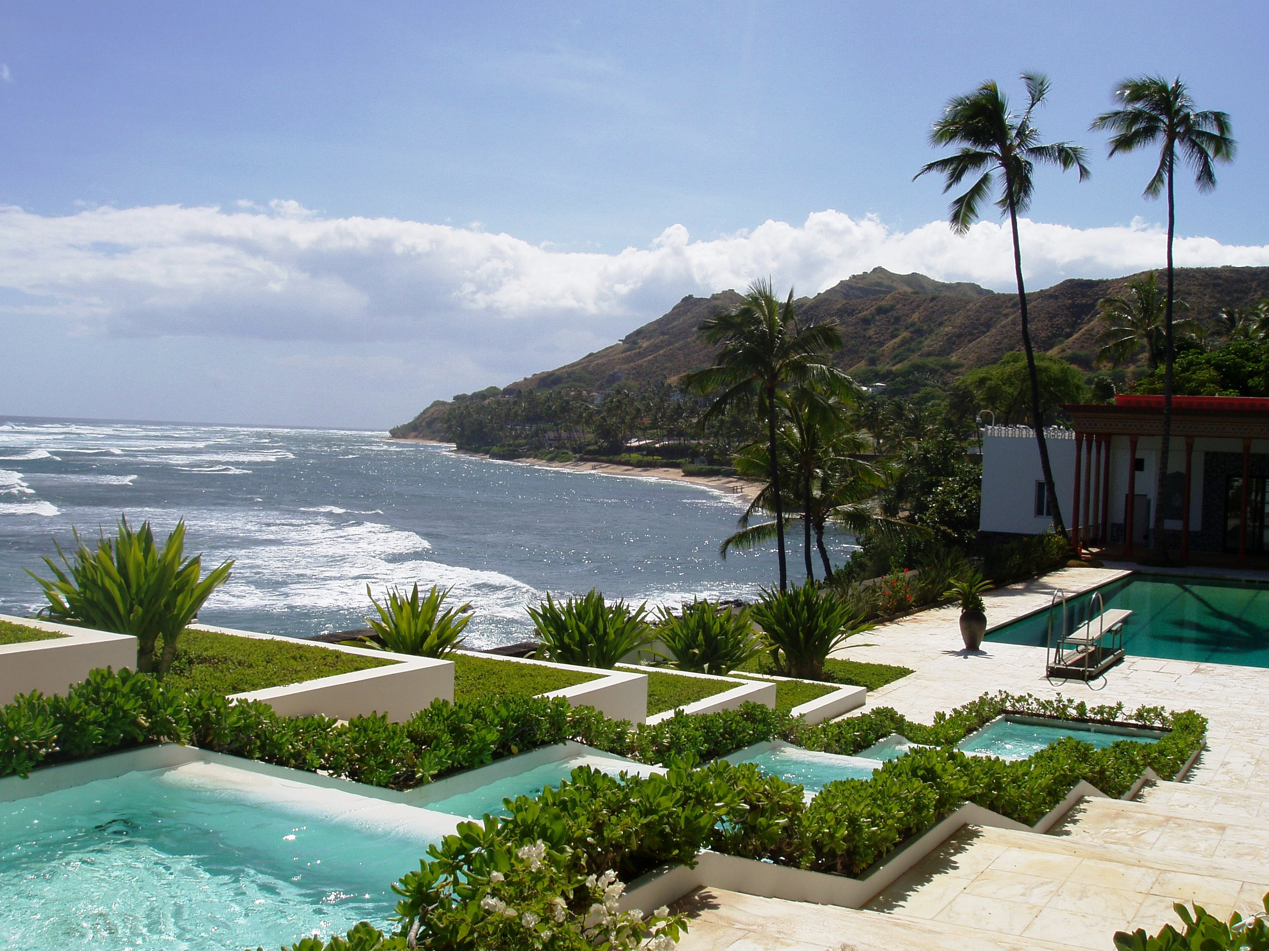 Shangri La gardens with swimming pool and fountain, and view of coast to Diamond Head. Near Honolulu, Hawaii.